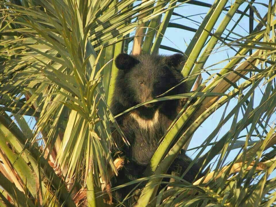 Asian black bear - Iran, hormozgan, rudan